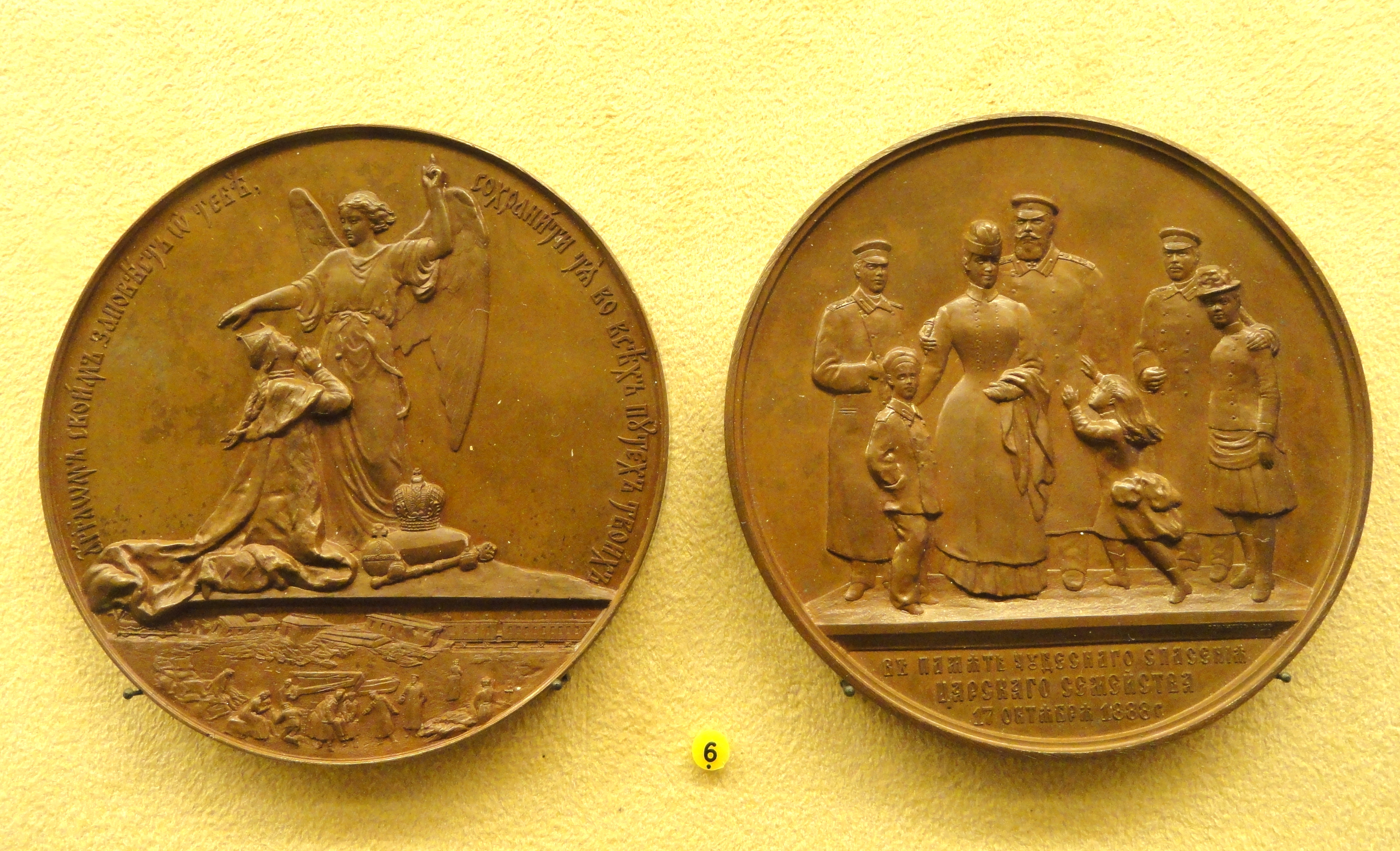 Coin / medal in the National Museum of Finland, Helsinki, Finland. This artwork is in the public domain because the artist(s) died more than 70 years ago.